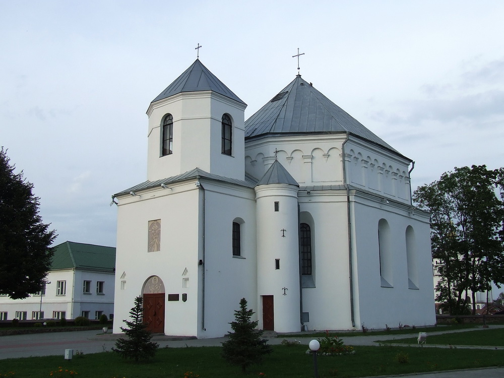 Catholic church of St. Michael the Archangel (Smarhoń, Belarus).